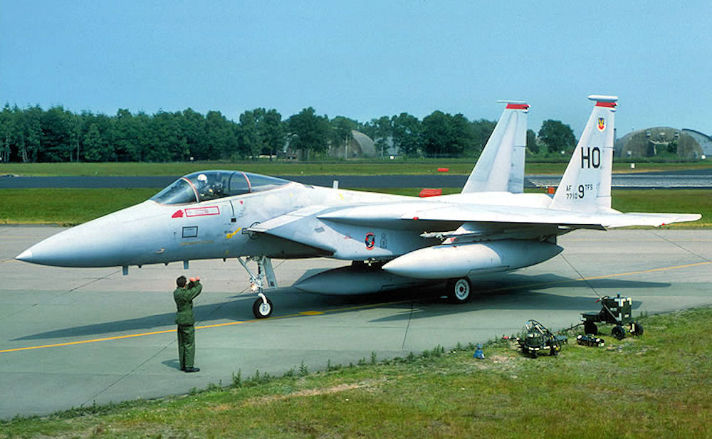 9th Tactical Fighter Squadron, 49th Tactical Fighter Wing McDonnell Douglas F-15A-19-MC Eagle 77-0109. Retired to AMARC as FH1080 Mar 4, 2008